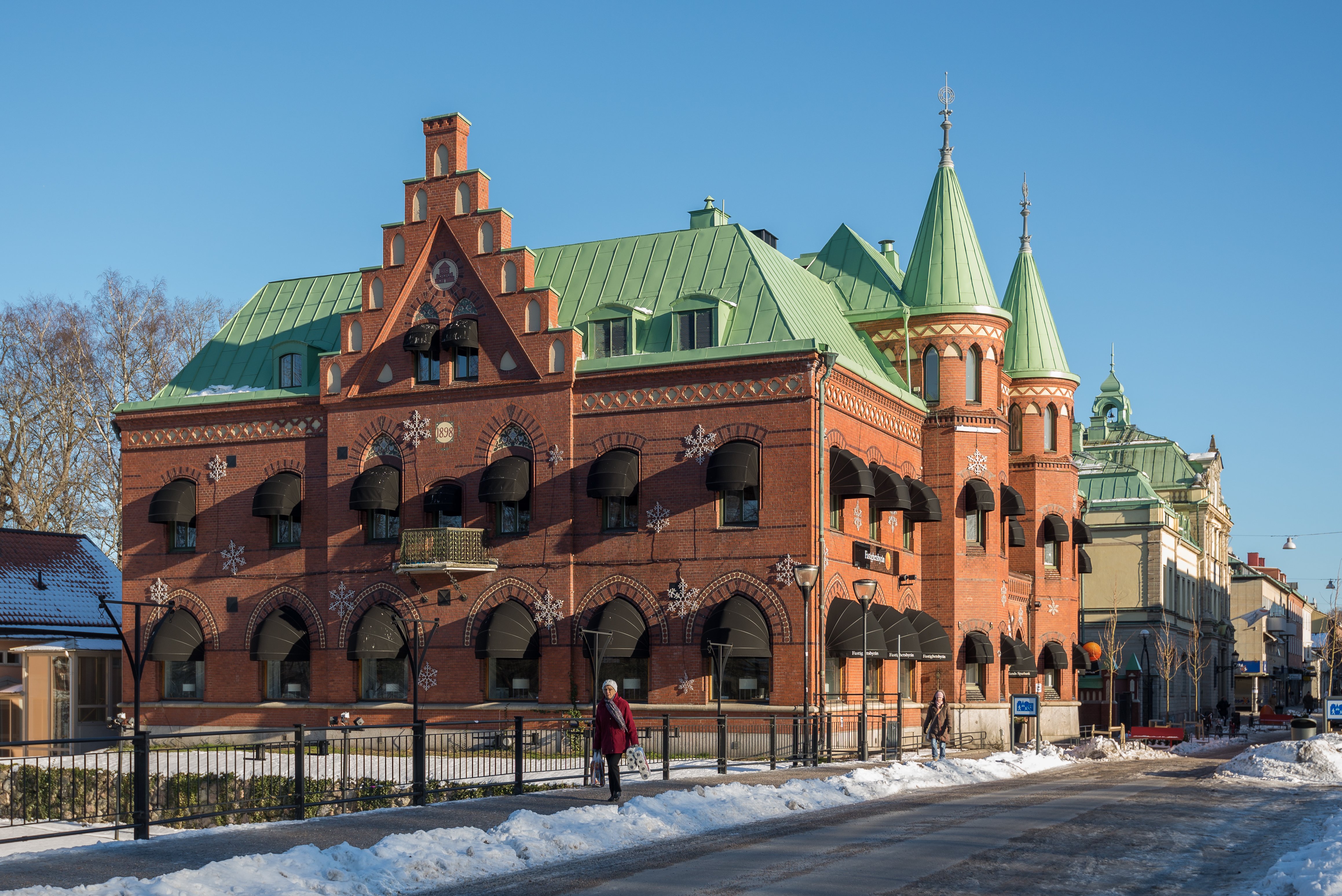 Sparbankshuset in Nyköping. Office for a local bank (Nyköpings sparbank), built 1898.